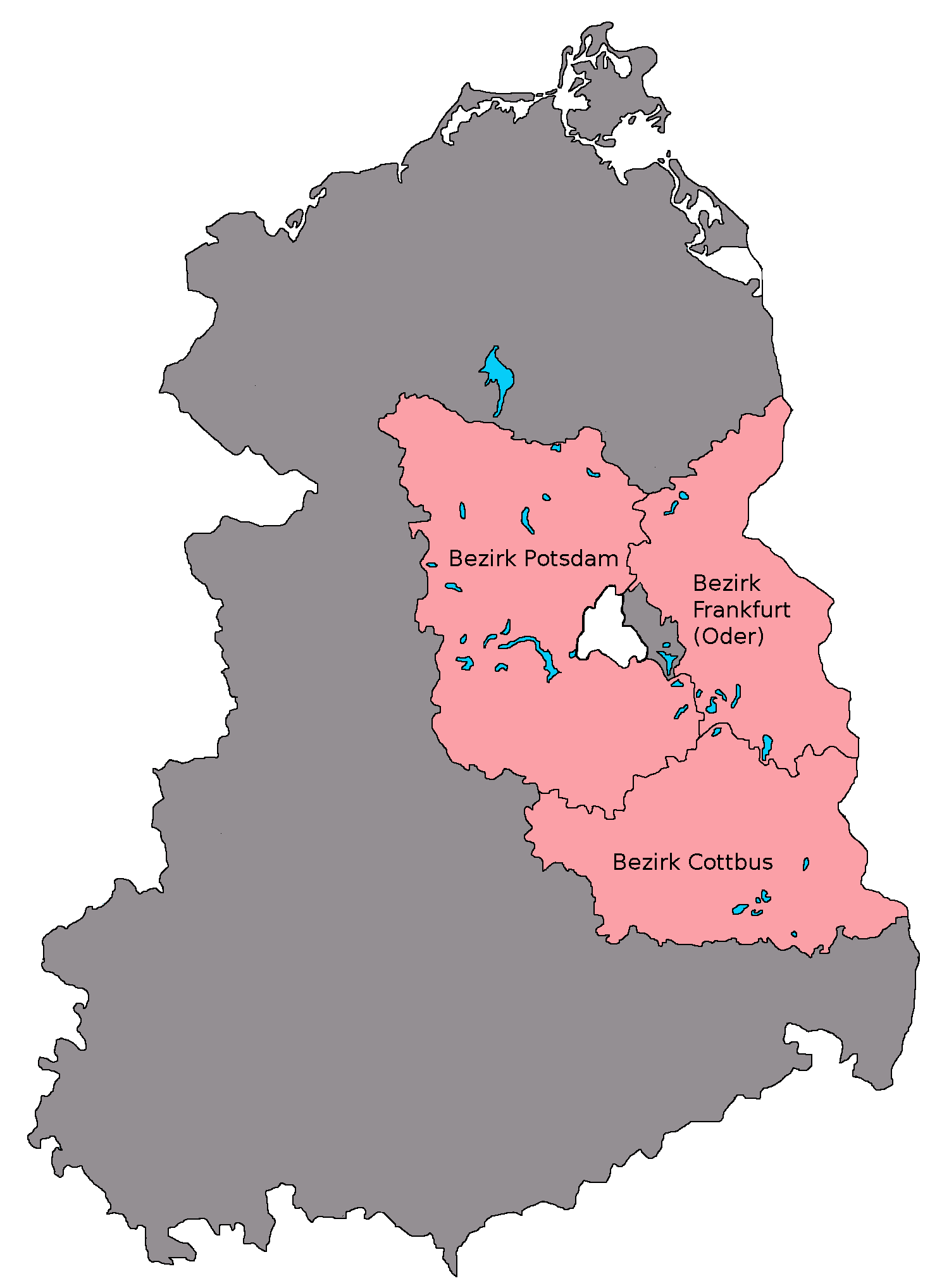 The districst of Brandenburg in the GDR.